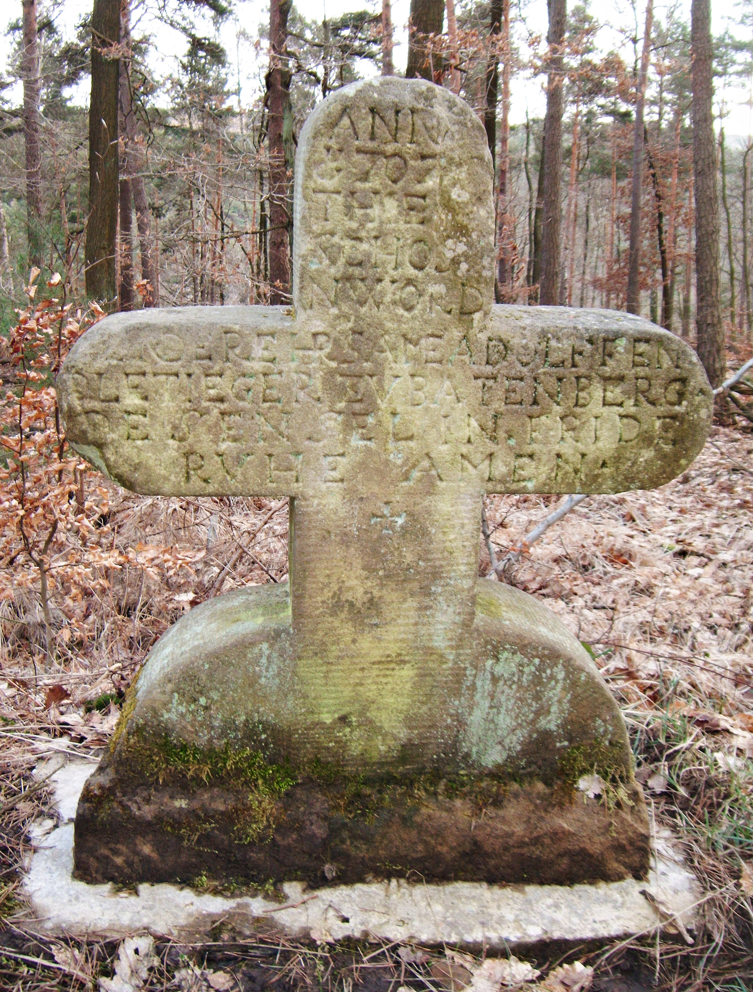 Battenberg, Jägerkreuz, Frontseite